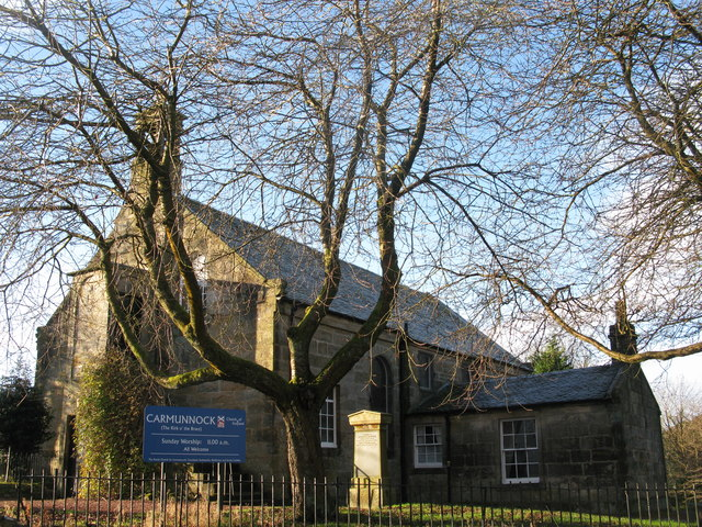 Carmunnock Parish Church (The Kirk o' the Braes), situated at the corner of Kirk Road and Busby Road in Carmunnock.